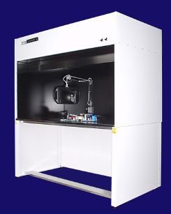 An important point in the conformal coating process is the inspection and finishing of a printed circuit board. To complete this process it is important to create the optimum environment where an operator can easily inspect the coated circuit boards without fatigue to body or eyes, which then provides the highest quality results for the conformal coating process and keeps the operator safe from the harmful effects of solvents. The IB101 conformal coating inspection booth is an ideal work station for a single operator to inspect & finish circuit boards which have been conformal coated and have UV fluorescence. SCH Technologies have designed, manufactured and utilise a range of purpose-built, compact UV inspection & finishing booths for conformal coating inspection that have been optimised to offer the best inspection environment without compromise to health & safety, coupled with ergonomic design to minimise operator fatigue.